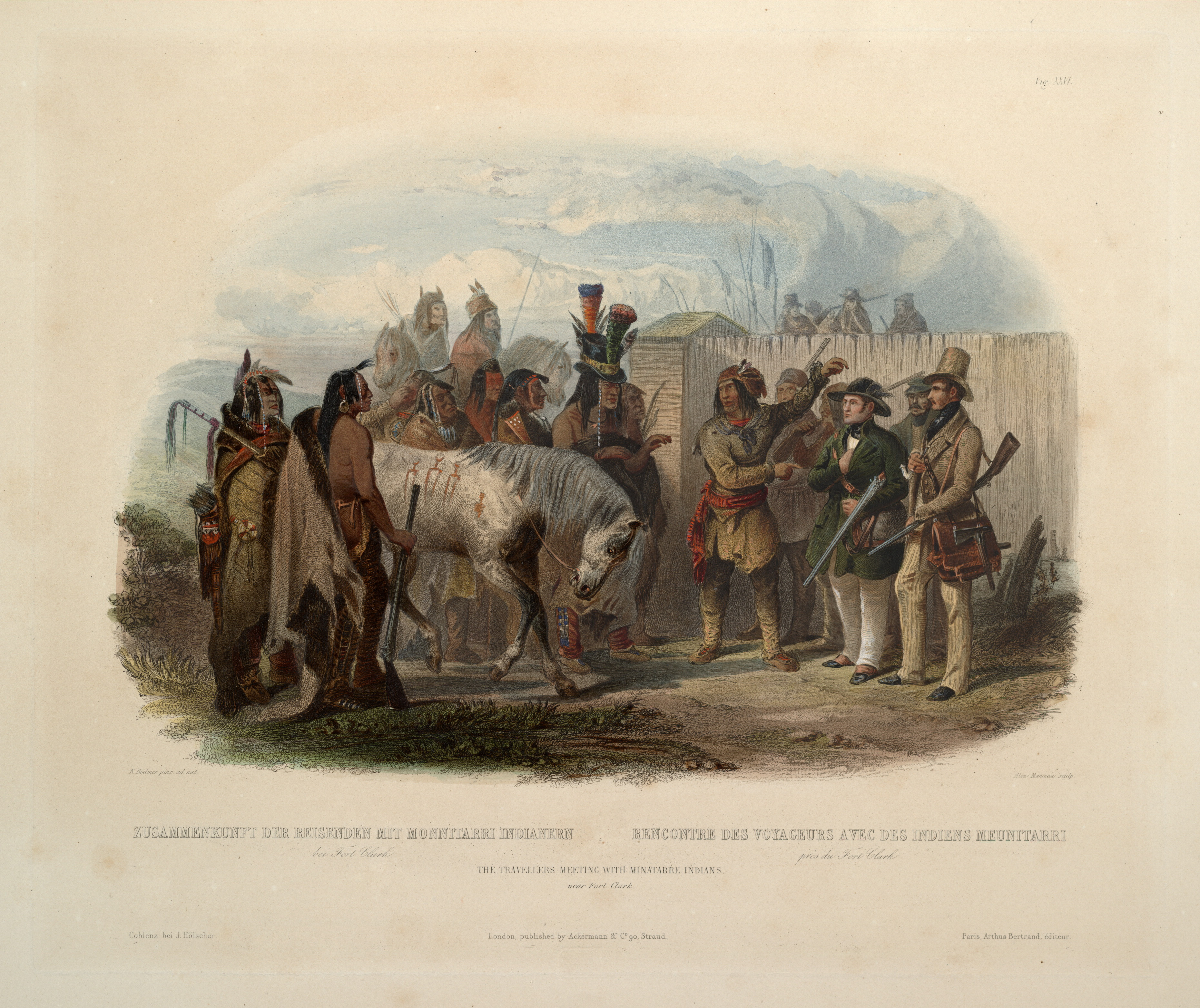 The travellers meeting with Minatarre indians